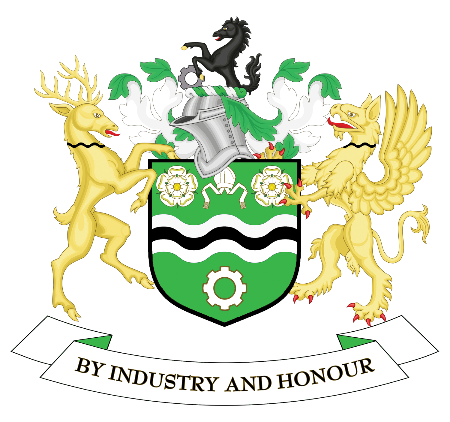 The Coat of arms of Rotherham Metropolitan Borough Council, the local government authority for the Metropolitan Borough of Rotherham, in South Yorkshire, England. The blazon is:ARMS: Vert on a Fess wavy between in chief a Mitre between two Roses Argent barbed and seeded proper and in base a Cogwheel Argent a Bar wavy Sable.CREST: On a Wreath of the Colours a demi-Horse Sable resting its dexter hoof upon a Cogwheel proper.SUPPORTERS: On the dexter a Buck and on the sinister a Griffin Or each charged upon the neck with a Bar wavy Sable.